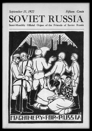 Cover of Soviet Russia magazine, Sept. 15, 1922. Published in United States prior to 1923, public domain. Original in Tim Davenport, scanned by me, no copyright claimed.